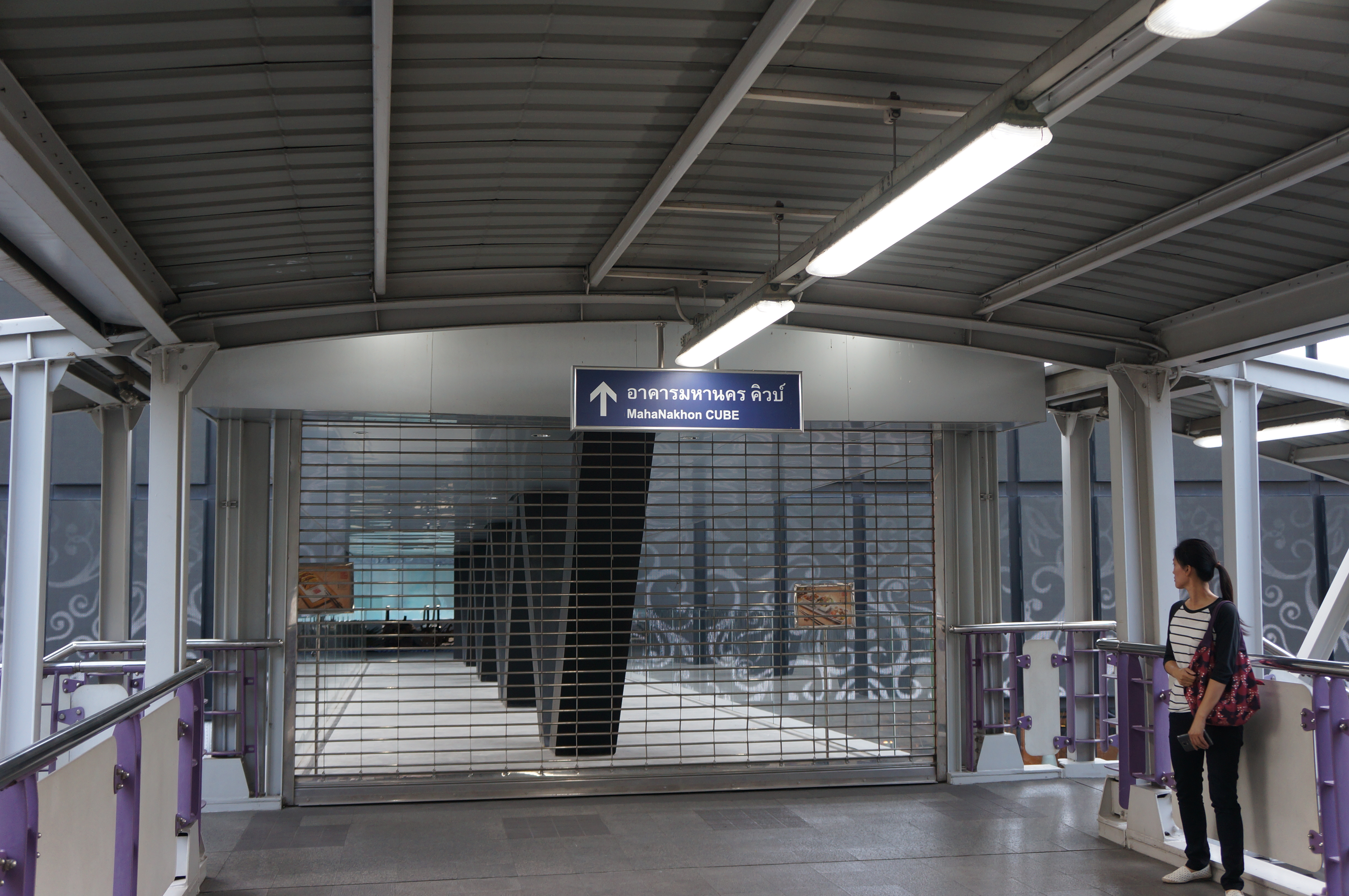 201701 Reserved Exit to MahaNakhon at Chong Nonsi Station